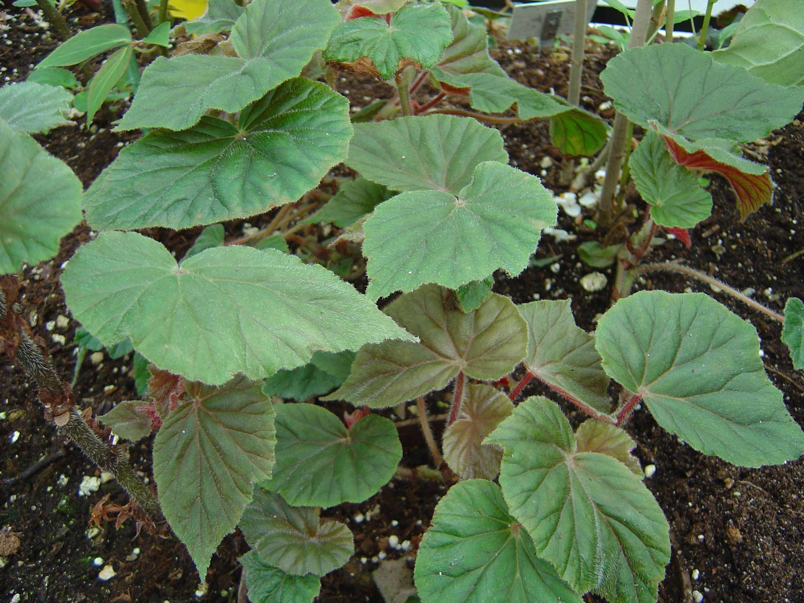 photo catch by myself : Solène Moutardier